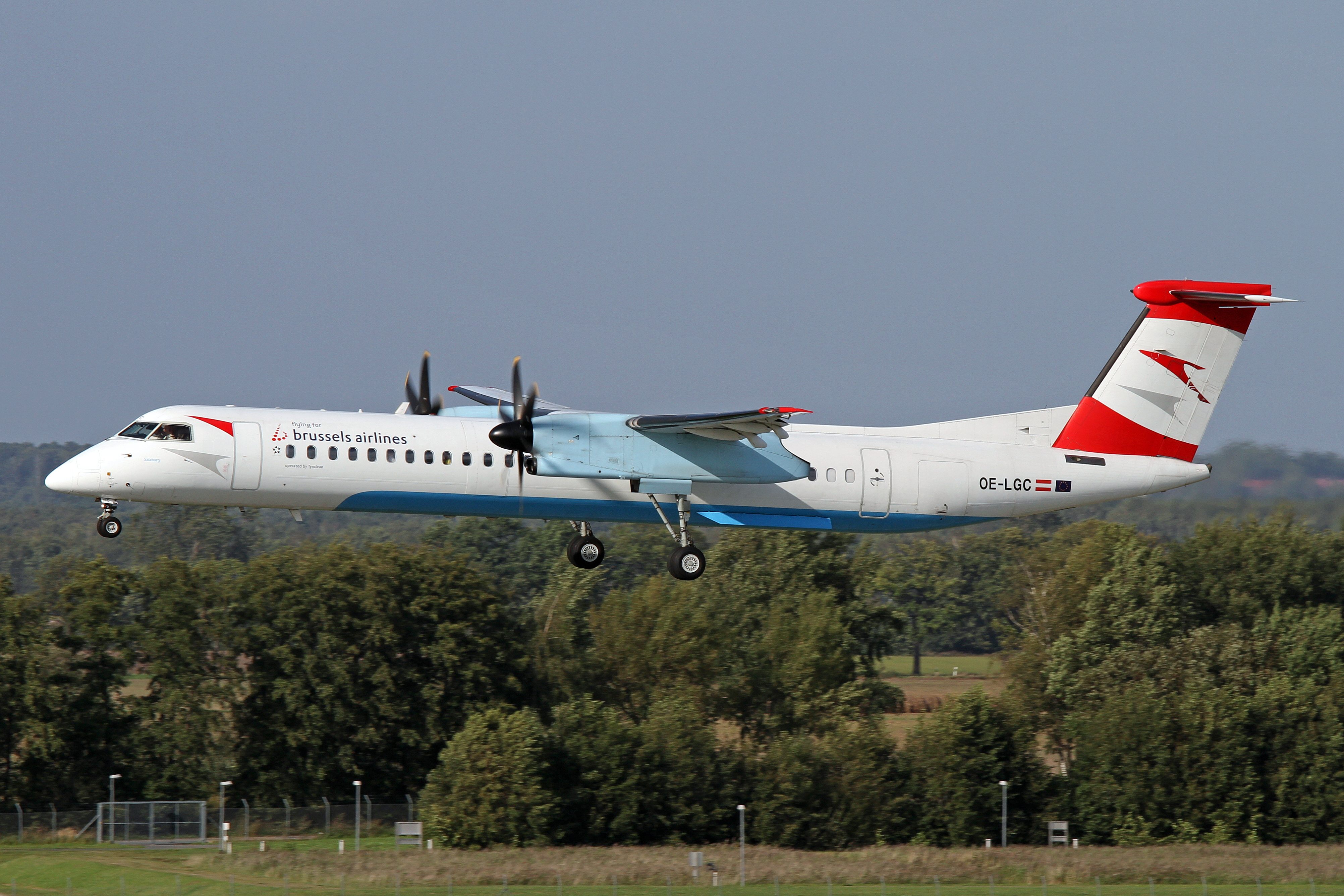 Dash 8-Q400 Tyrolean Airways OE-LGC used by Brussels Airlines